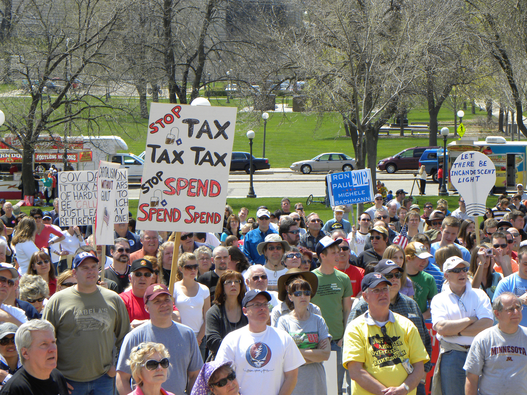 St. Paul, Minnesota May 7, 2011 A few thousand people attended the annual Tax Cut Rally at the Minnesota state capitol building. The conservative protesters say they want lower taxes and smaller government. This event was sponsored by: Republican Party of Minnesota, Fox News Radio KTLK, Minnesota Majority 501(c)4, Taxpayer's League of Minnesota 501(c)4 2011-05-07 This is licensed under a Creative Commons Attribution License.